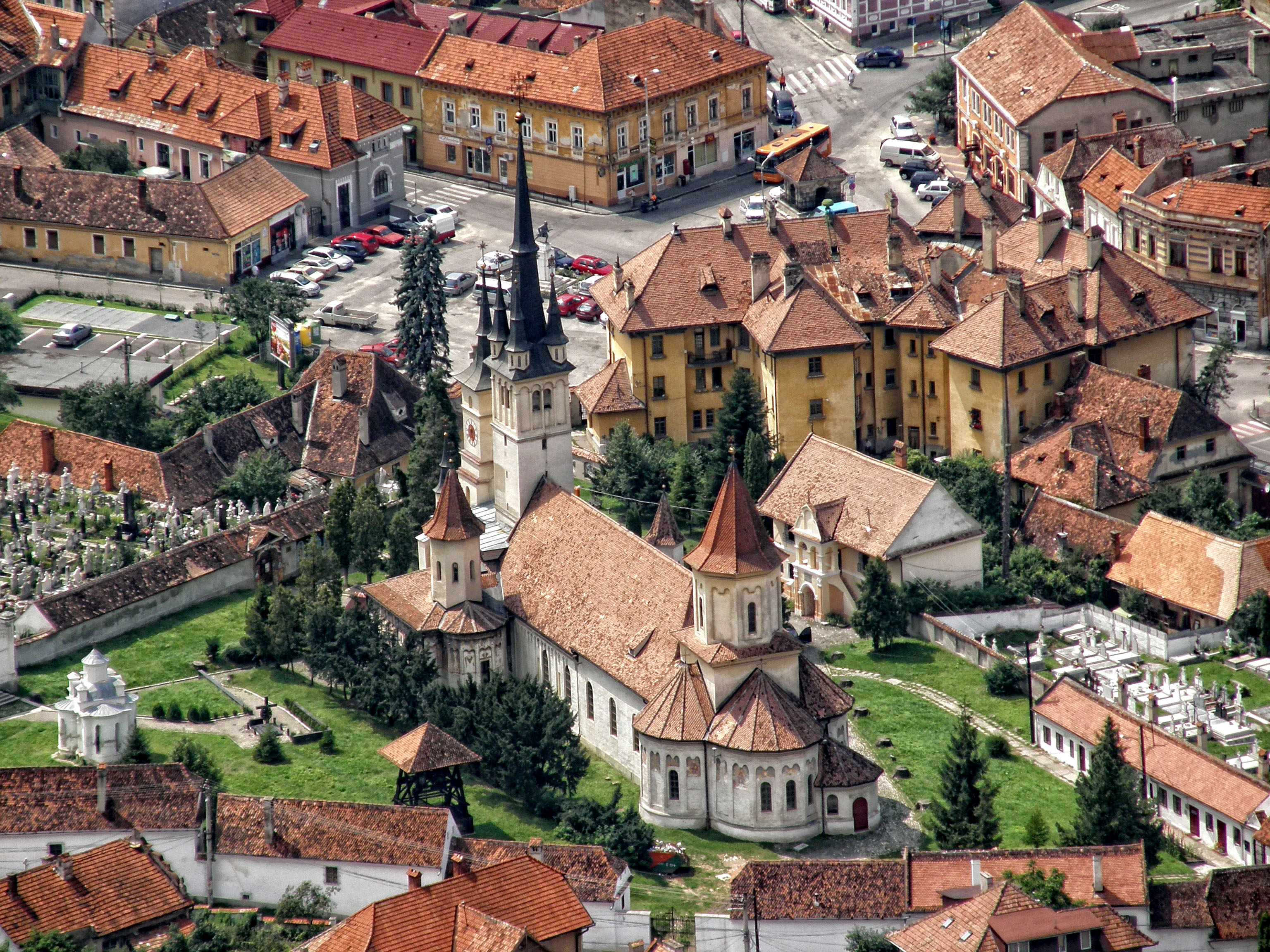 Aerial view of historic Şchei district — in the city of Braşov. With Romanian Orthodox walled compound of Saint Nicholas church and St Nicholas cemetery. Located in southeastern Transylvania, central Romania.